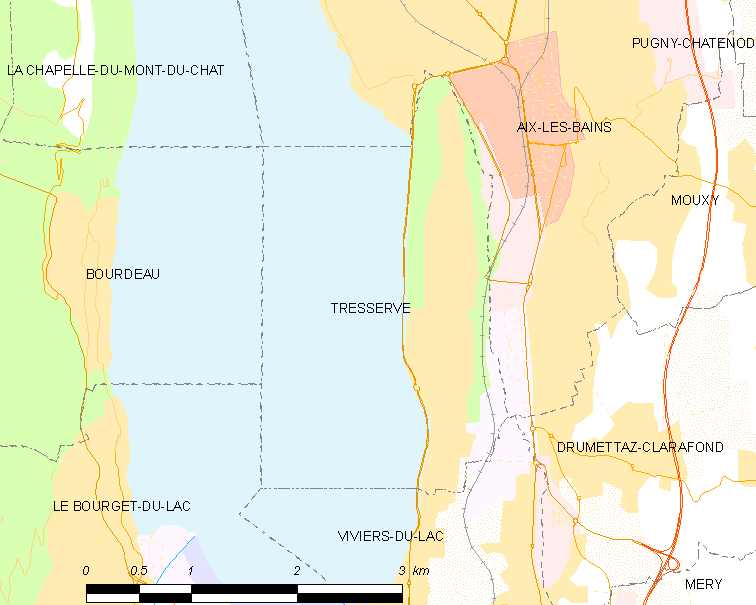 Map of French municipality Tresserve